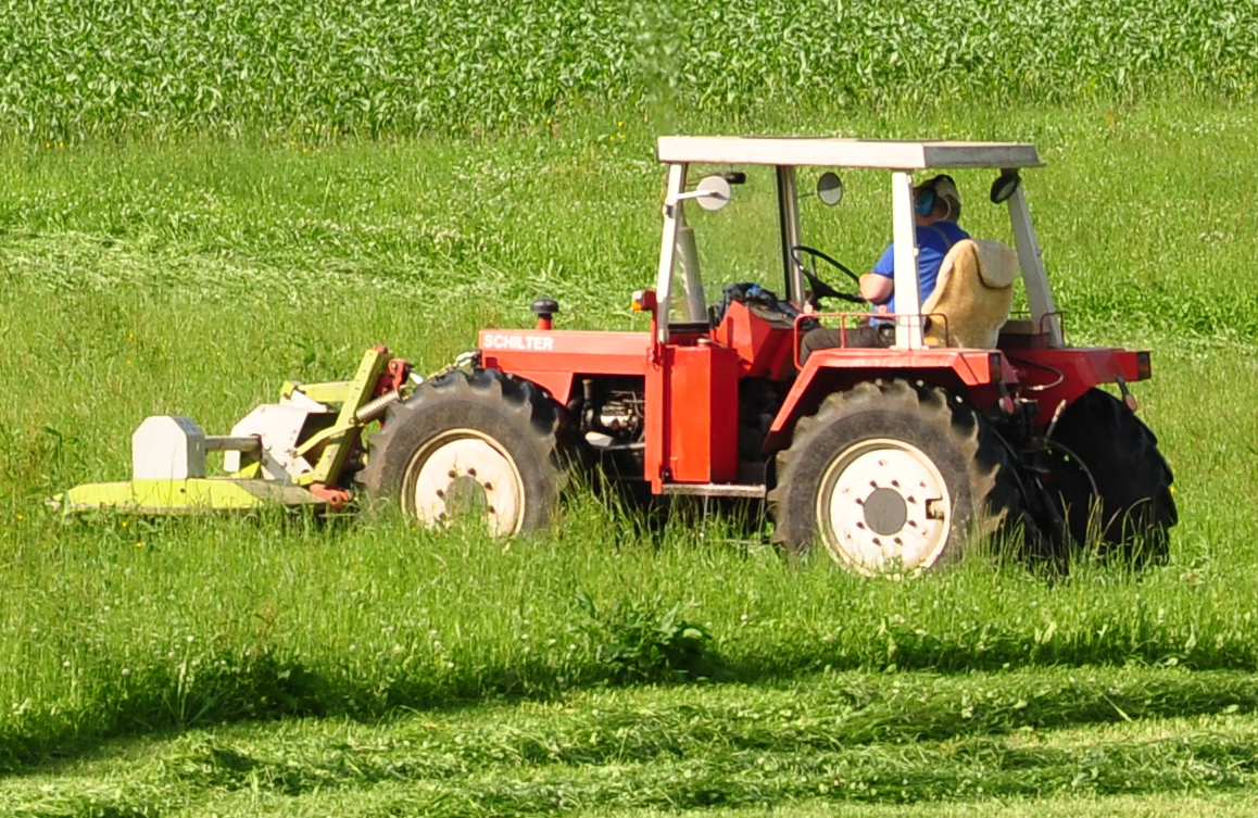 A Schilter tractor with a front mower in Rüti (ZH)